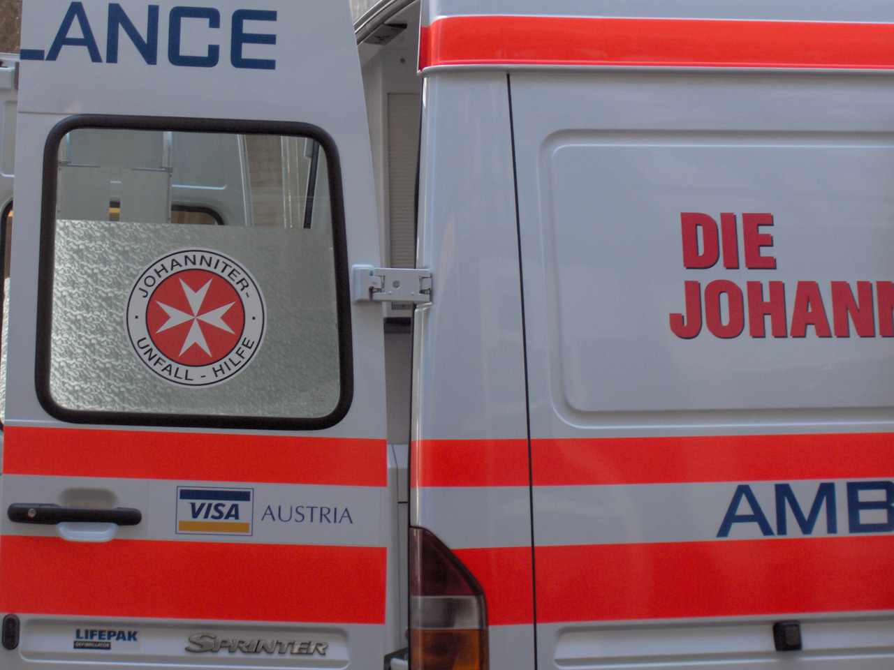 Johanniter ambulace, Vienna, Austria